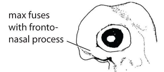 Standard Event System character depiction